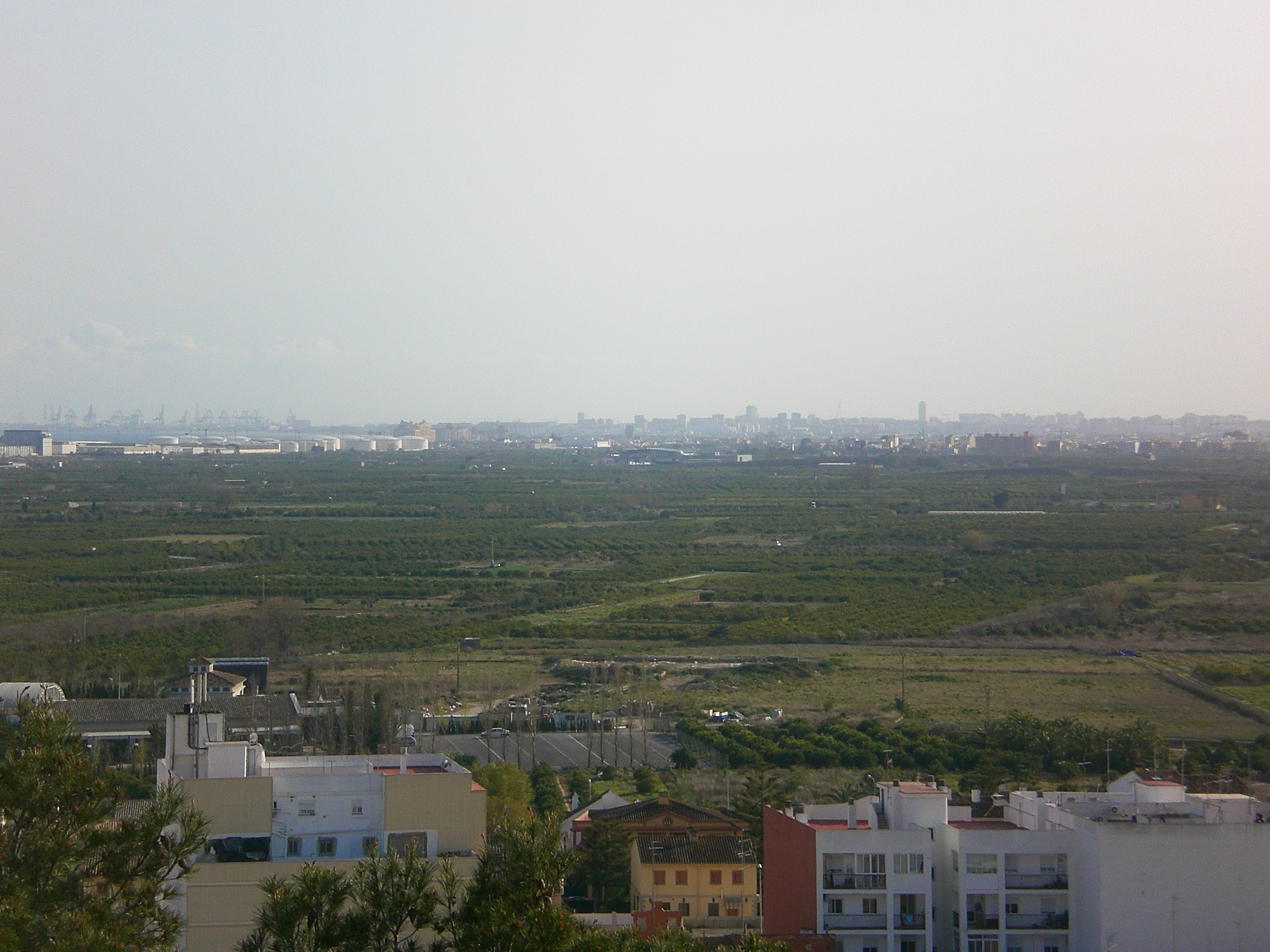 View of the city of Valencia from the castle in El Puig, Valencia